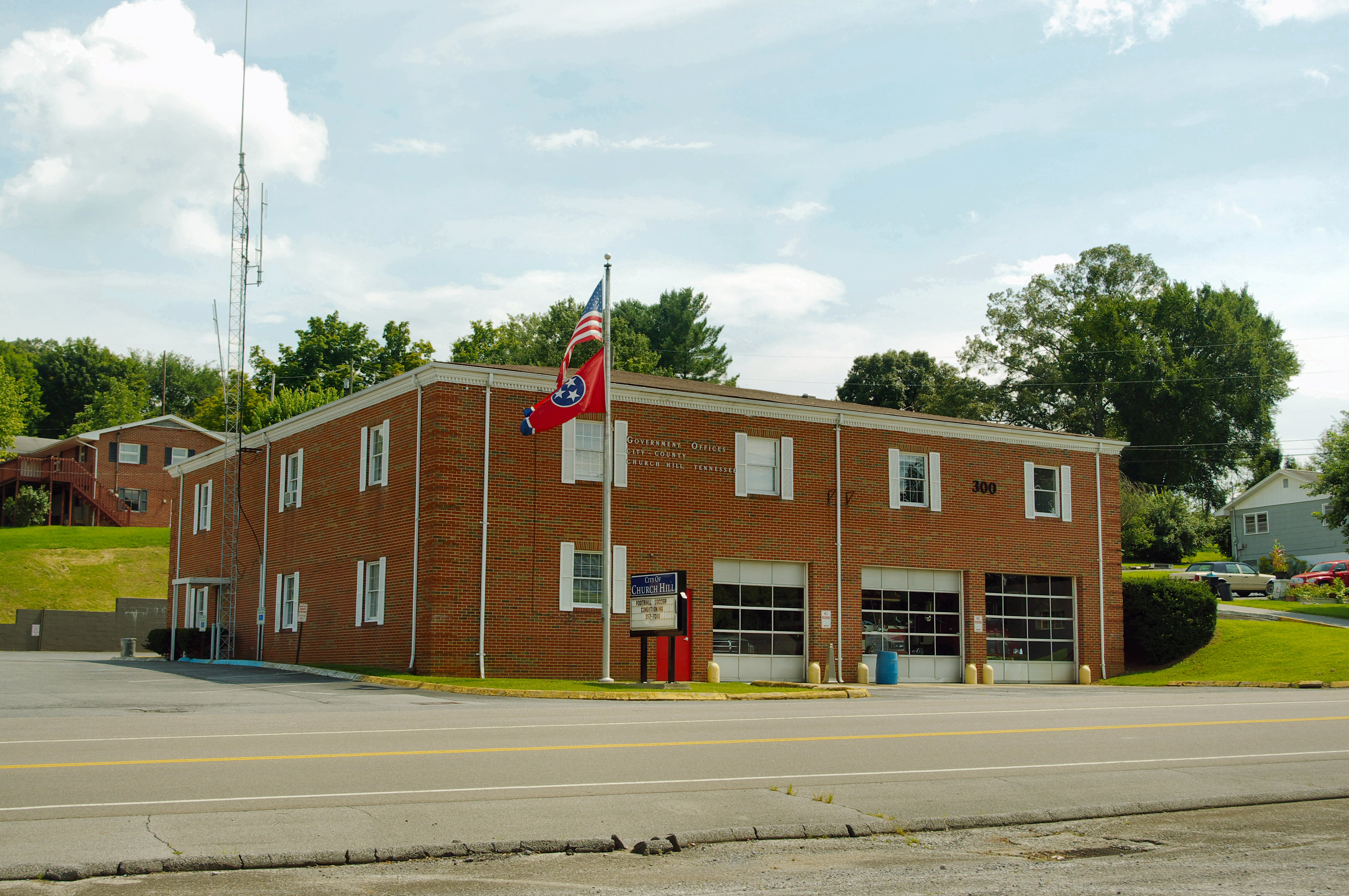 City Hall in Church Hill, Tennessee, United States.